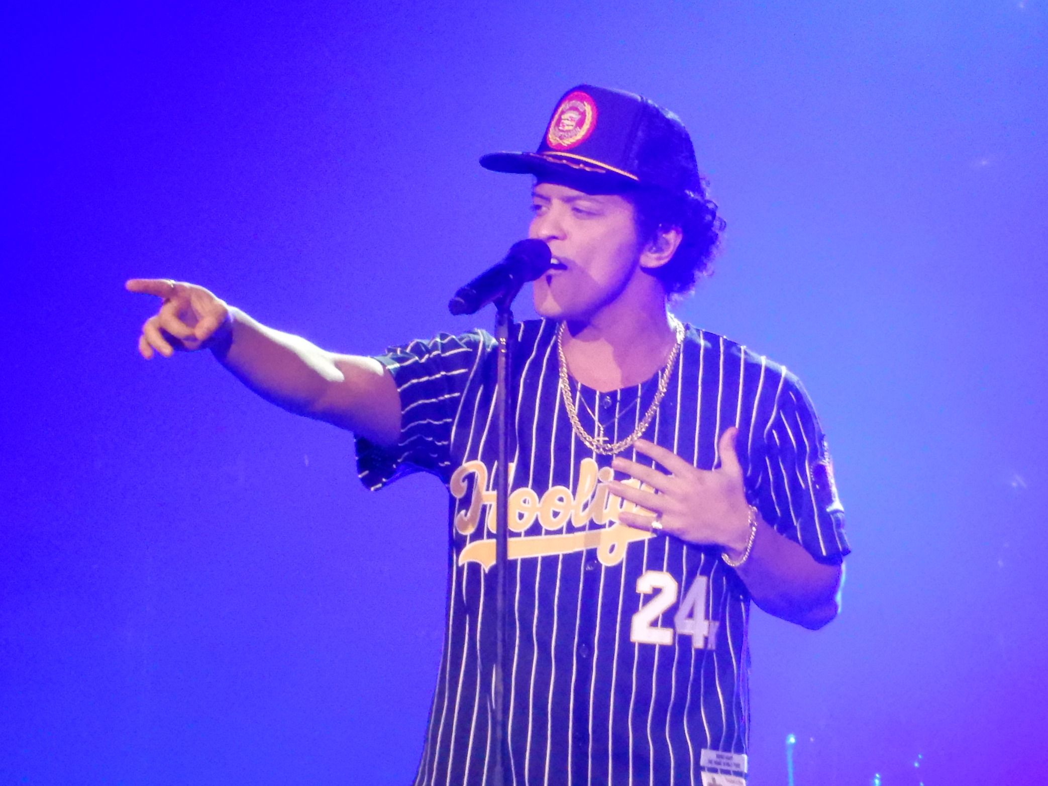 This is a photo of American entertainer Bruno Mars performing live during his 24K Magic World Tour